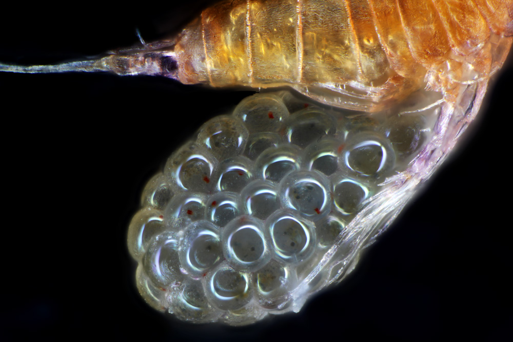 An egg sack of a Copepod which belongs to the Crustacea